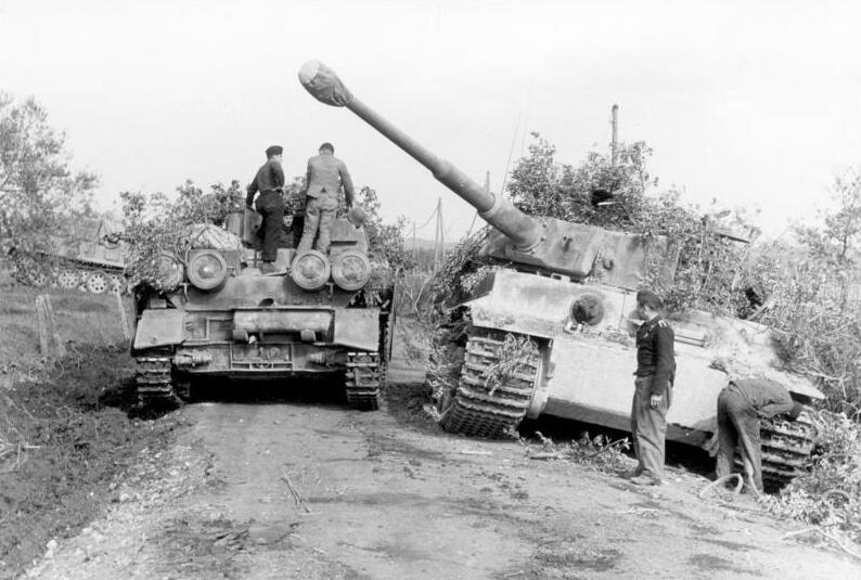 Information added by Wikimedia users.Tiger is of Schwere Panzer-Abteilung 508 (only Tiger unit that was near Nettuno at this date)[1]